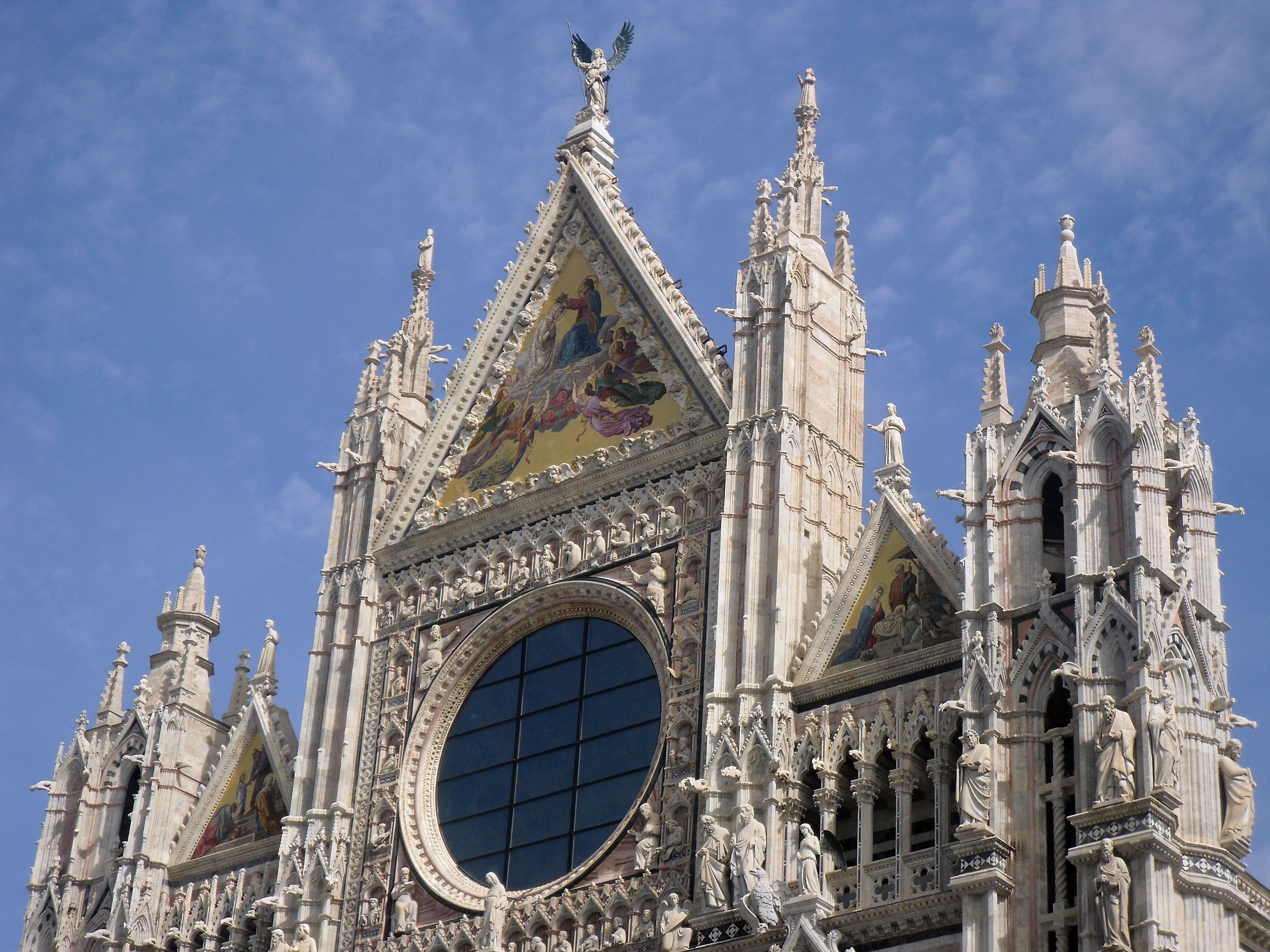 Siena Cathedral